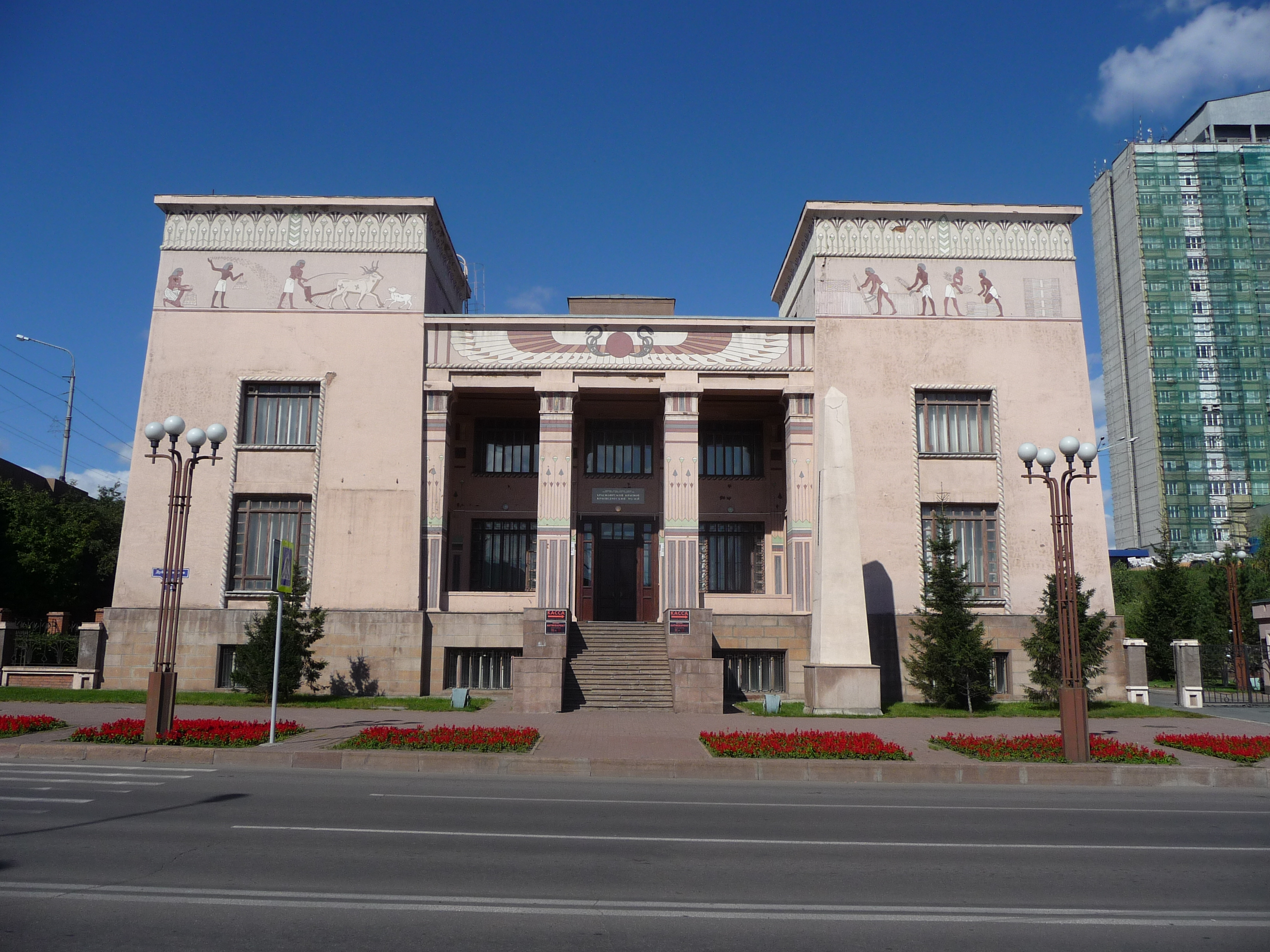 Krasnoyarsk museum of local lore